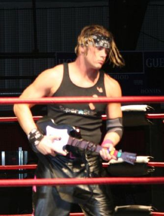 Professional wrestler Jimmy Rave at a TNA Wrestling house show